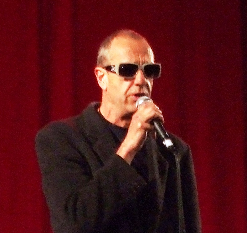 Arthur Smith appearing as Leonard Cohen in the cabaret tent at the 2008 Glastonbury Festival